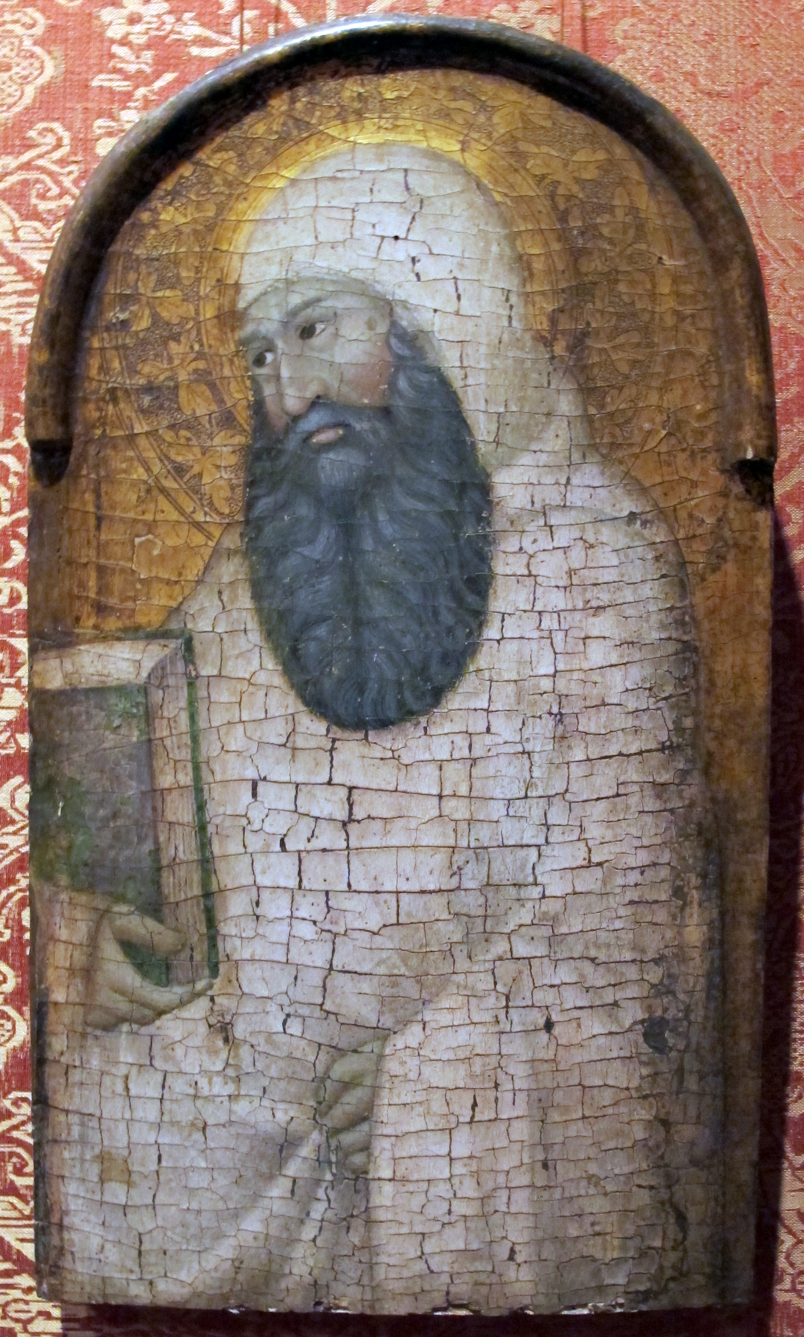 Italian Gothic paintings in the Metropolitan Museum of Art